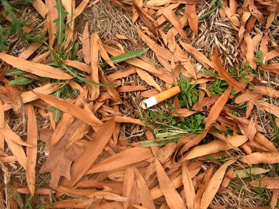 A cigarette stub in the Anna J. Cooper Circle, Washington, DC